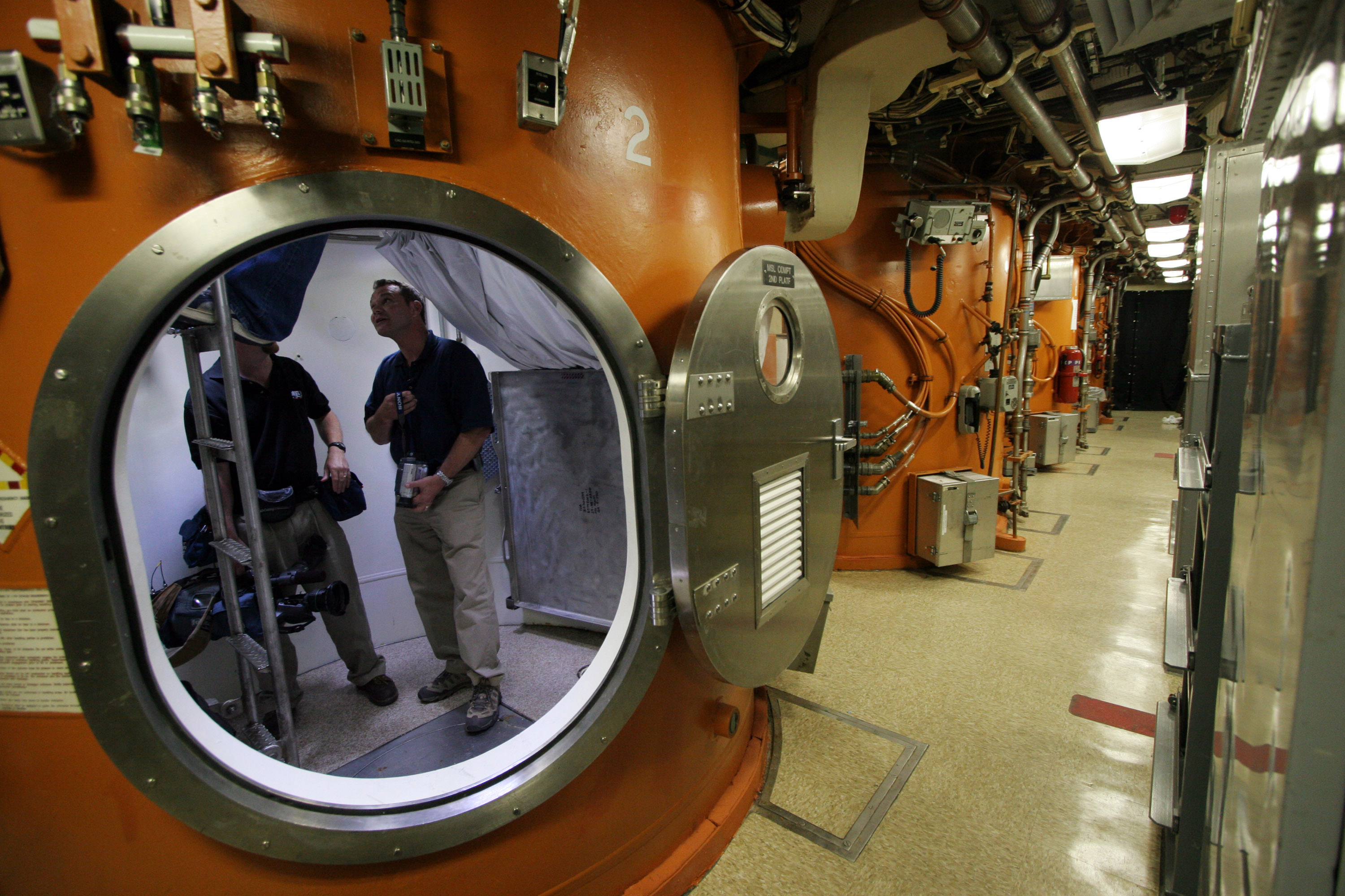 Diver lockout chamber aboard USS Florida (SSGN-728). Navy caption: Atlantic Ocean (May 17, 2006) - Members of the media film inside a lock out chamber aboard the Ohio-class guided-missile submarine USS Florida (SSGN 728). USS Florida will be officially welcomed to her new home in Kings Bay with a return to service ceremony scheduled for May 25, 2006 in Mayport, Fla. Florida is the second of four SSBN submarines to be converted to the guided missile SSGN platform.